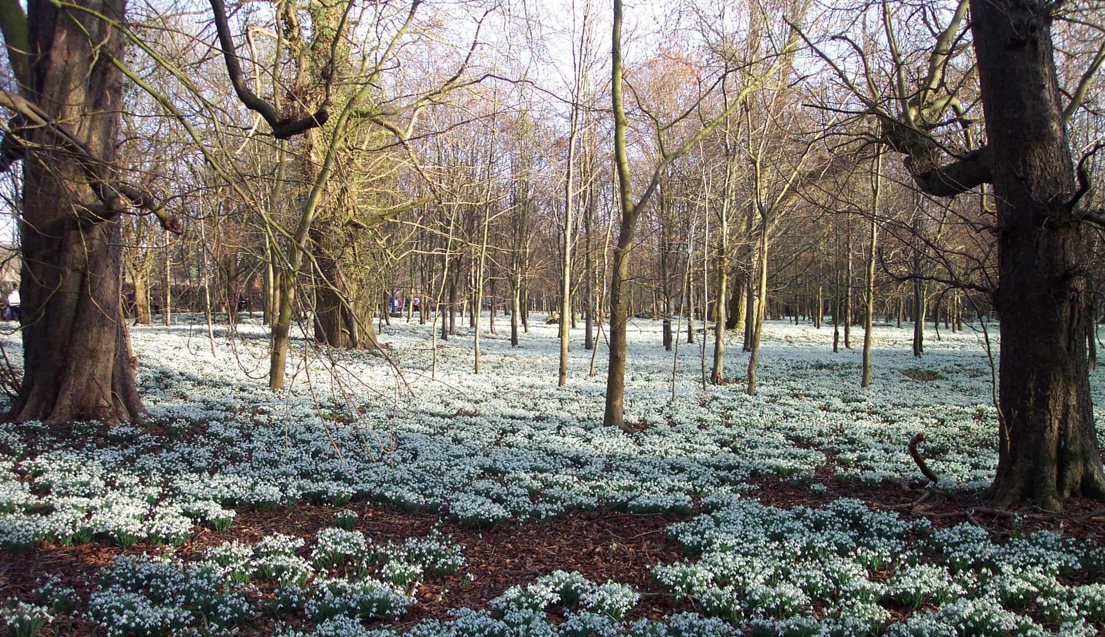 Snowdrop display at Welford Park in the English county of Berkshire. For more information see the Wikipedia article Welford Park.